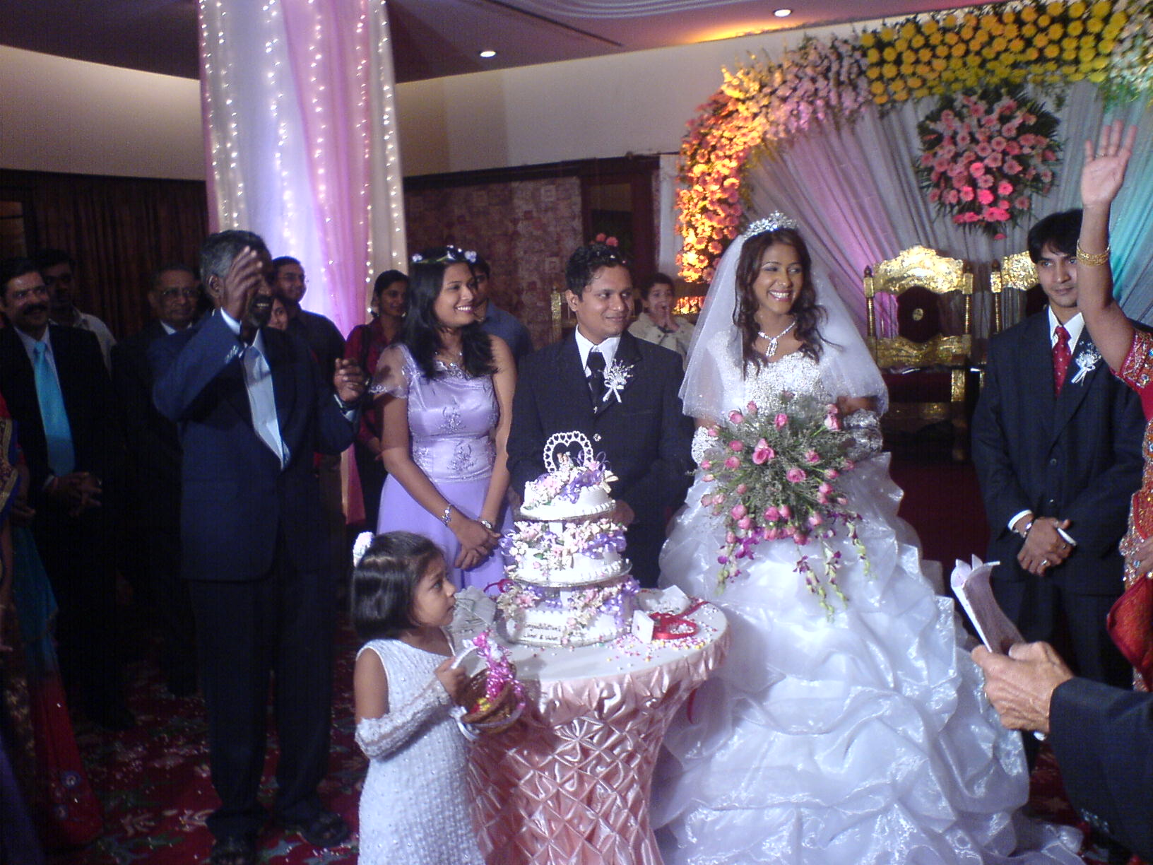 Married couple, groom in suit, bride in white dress, standing with bridesmaid and best man behind their wedding cake.Valan's Wedding